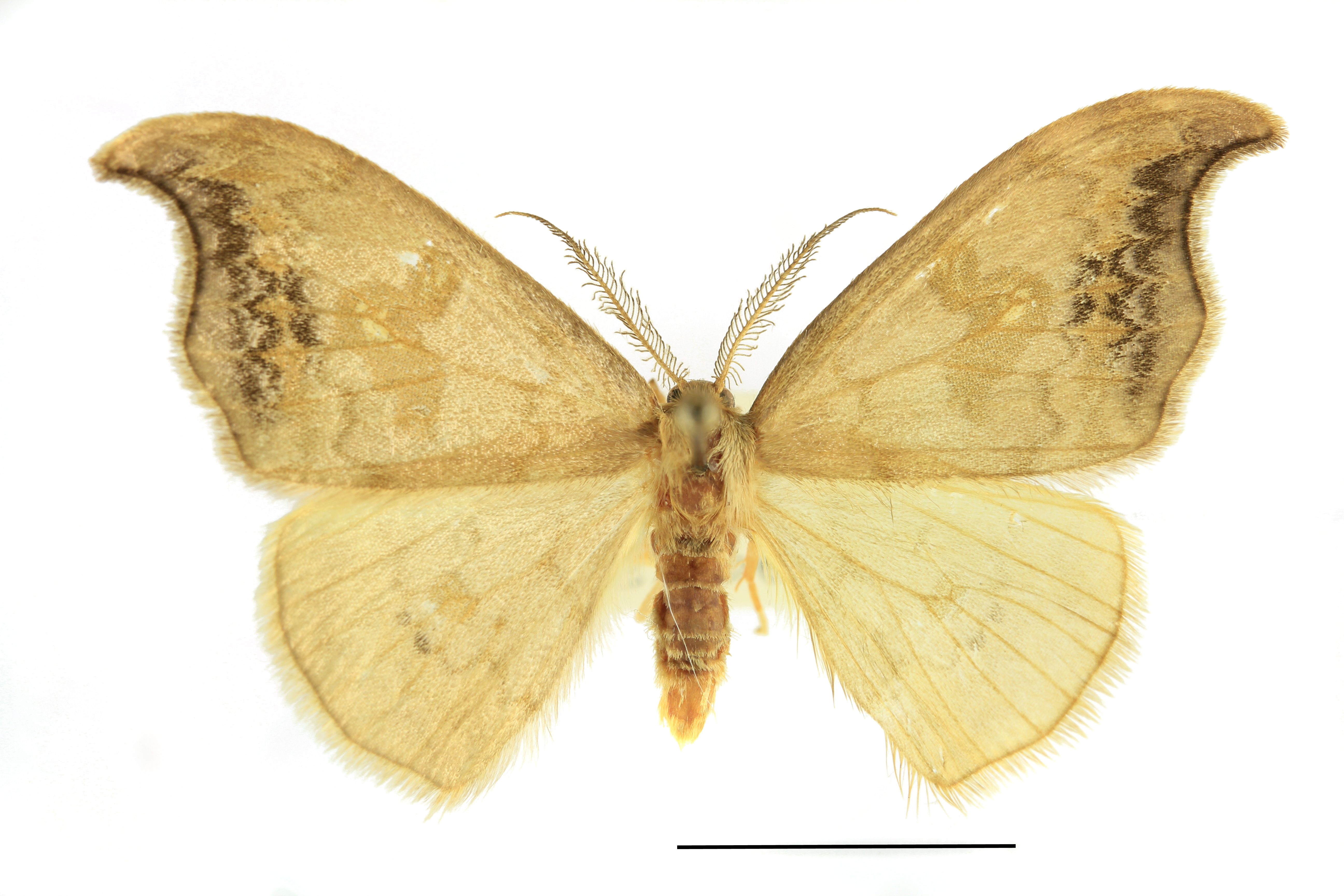 Sabra harpagula, insect collections SLU, Uppsala